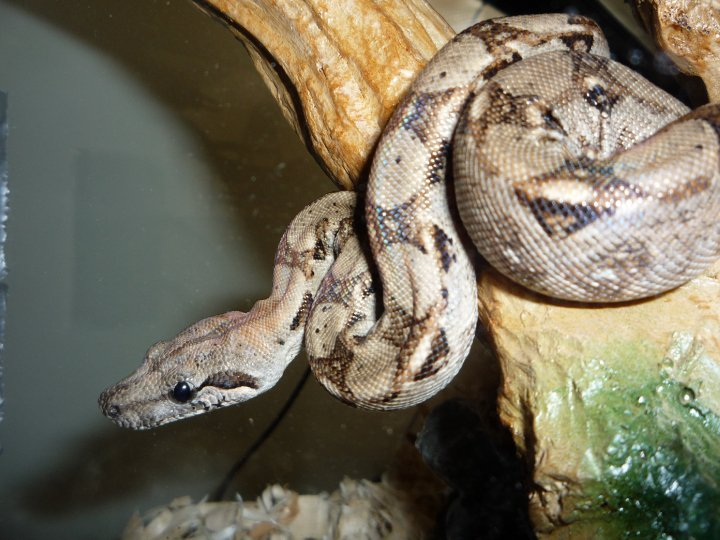 Nicaraguan Boa, Iris. Snake owned by Jason Moeller